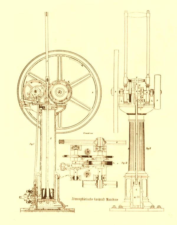 Copy of the patent applied in 1863 by Niklaus Otto & Eugene Langen for a gas engine, in England and other countries considered the first efficient combustion engine by the judges in Paris exhibition contrasted with Lenoir original gas engine